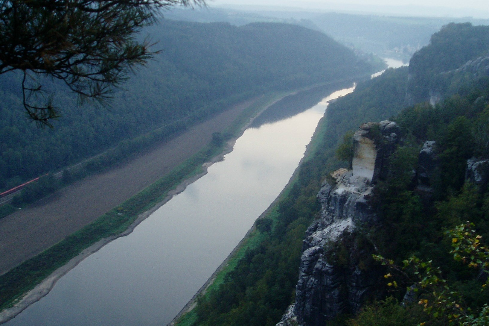 The Elbe from the Bastei mountain Oct 2006